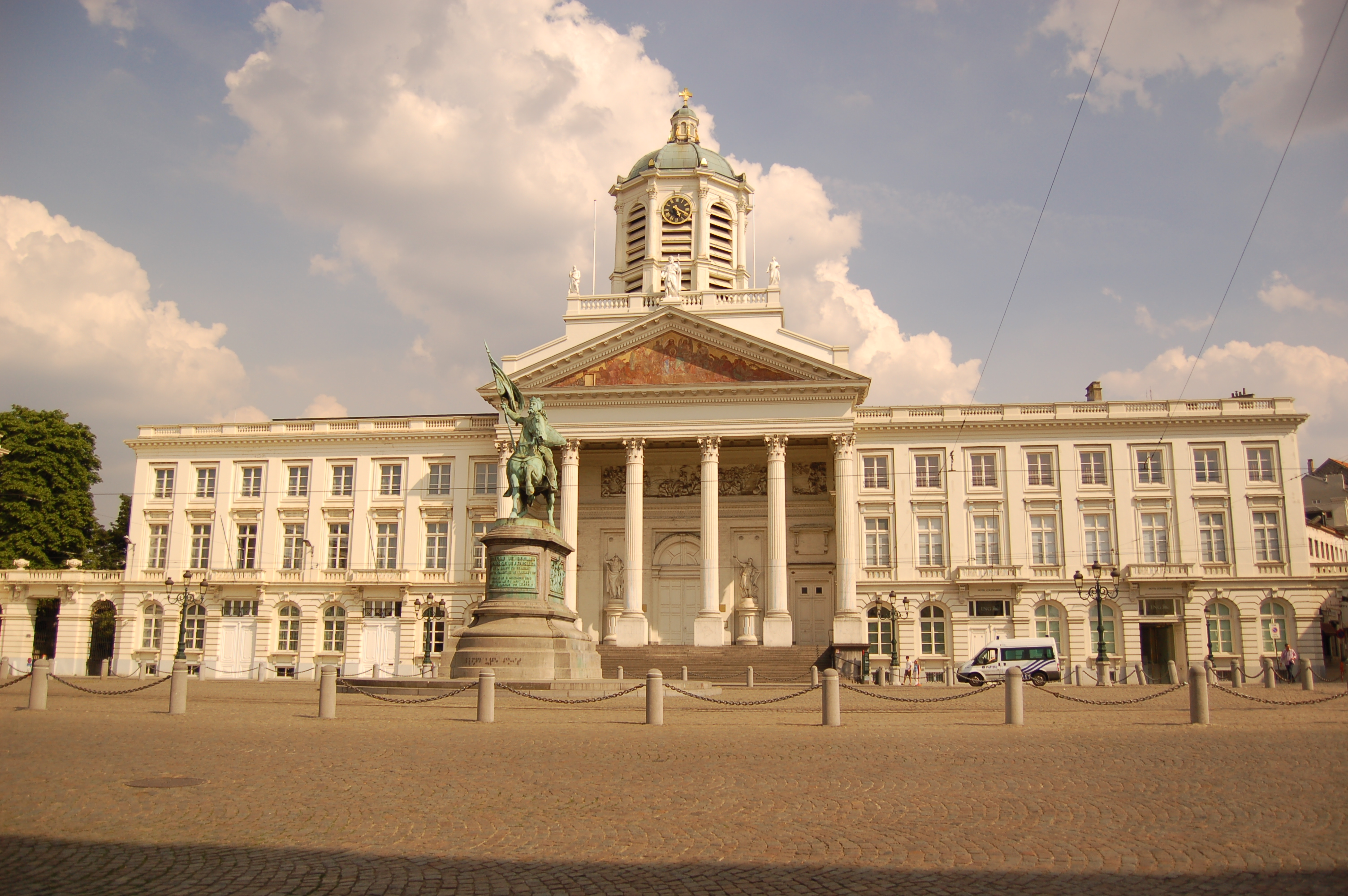 Place Royale - Brussels